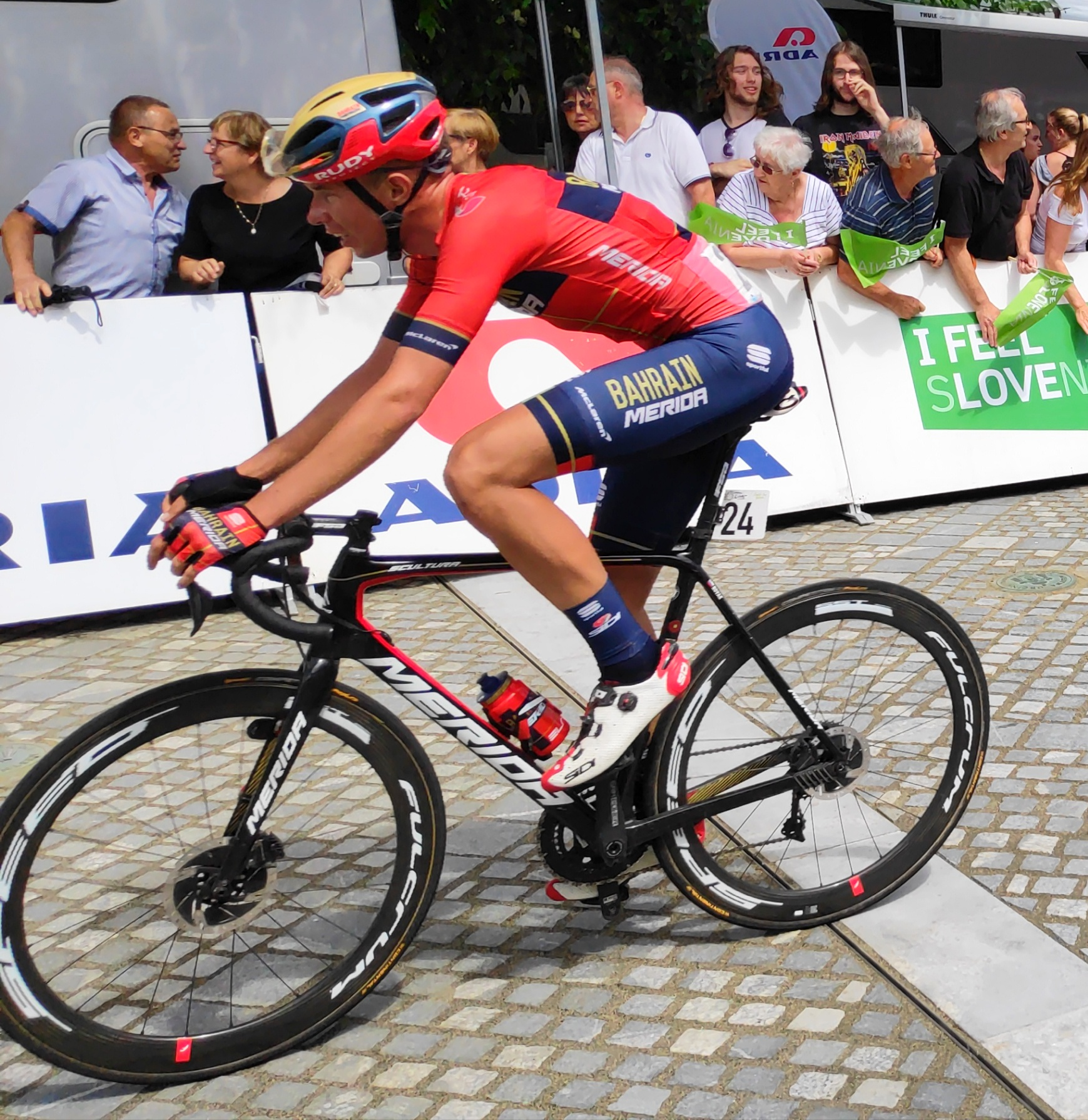 Domen Novak (2019 Tour of Slovenia, Stage 5)